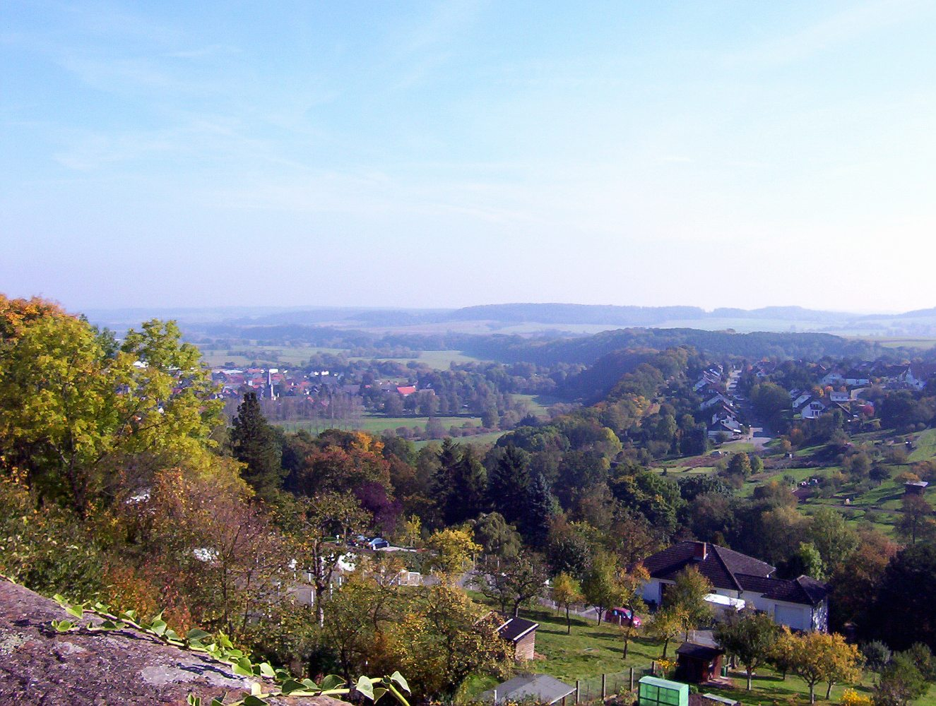 View from the old town of Battenberg upon the Eder river (NW Hesse, Germany) towards ESE, the Eder valley with the village of Battenfeld (part of municipality of Allendorf upon the Eder river) being in the midground and background of the left half of the picture. The midground of the right half shows the neigbourhood along Erfurter Straße and Eisenacher Straße above the Eder river valley at the eastern outskirts of Battenberg.